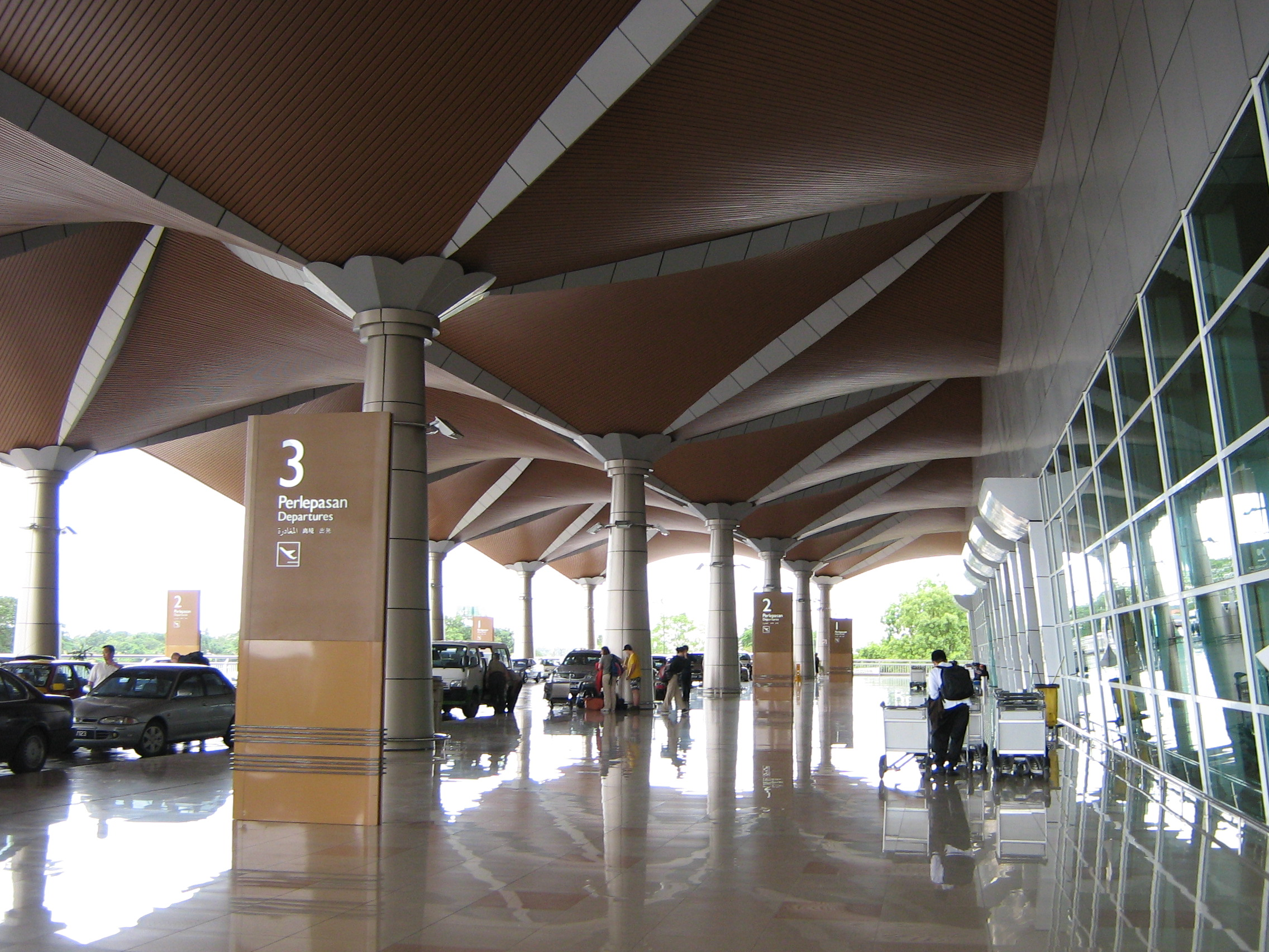 Kuching Airport access road